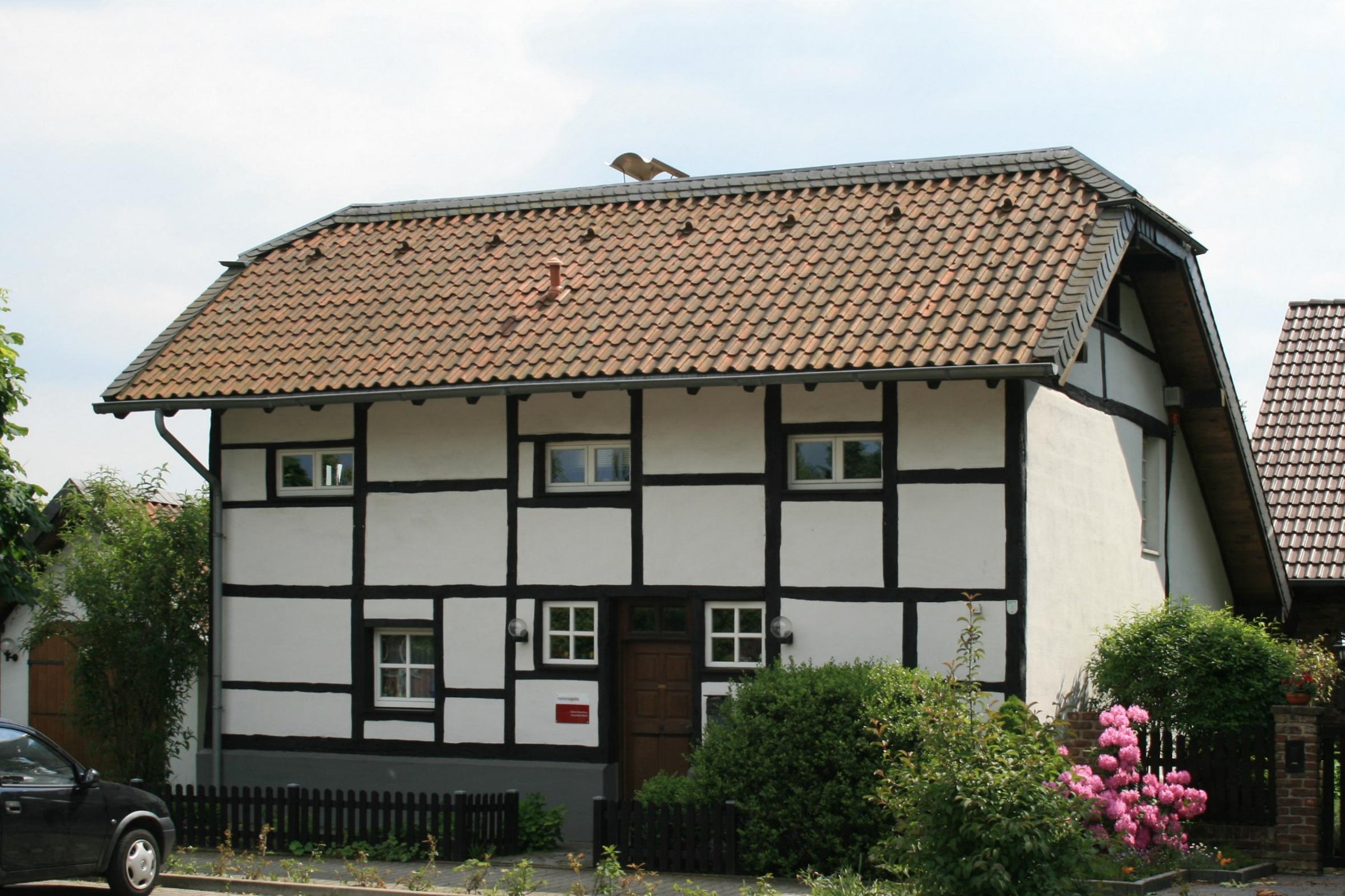 Cultural heritage monument No. A 006 in Mönchengladbach